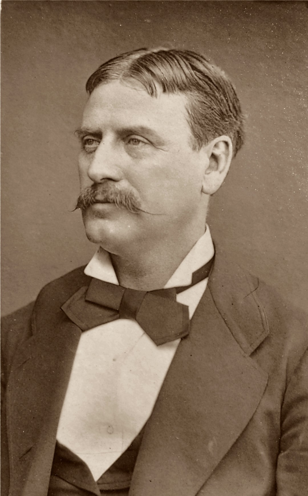 Louis Auguste Florimond Ronger - Monsieur Hervé 1825-1892, French Composer.